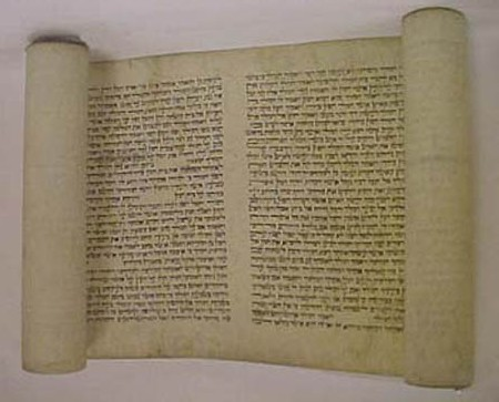 Pic from Netherlands Wikipedia